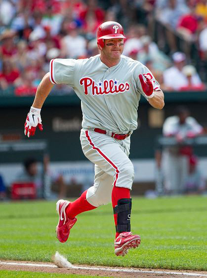 Jim Thome runs to first base in a game against the Baltimore Orioles on June 8, 2012